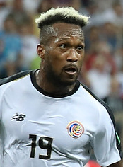 Waston with Costa Rica at the 2018 FIFA World Cup